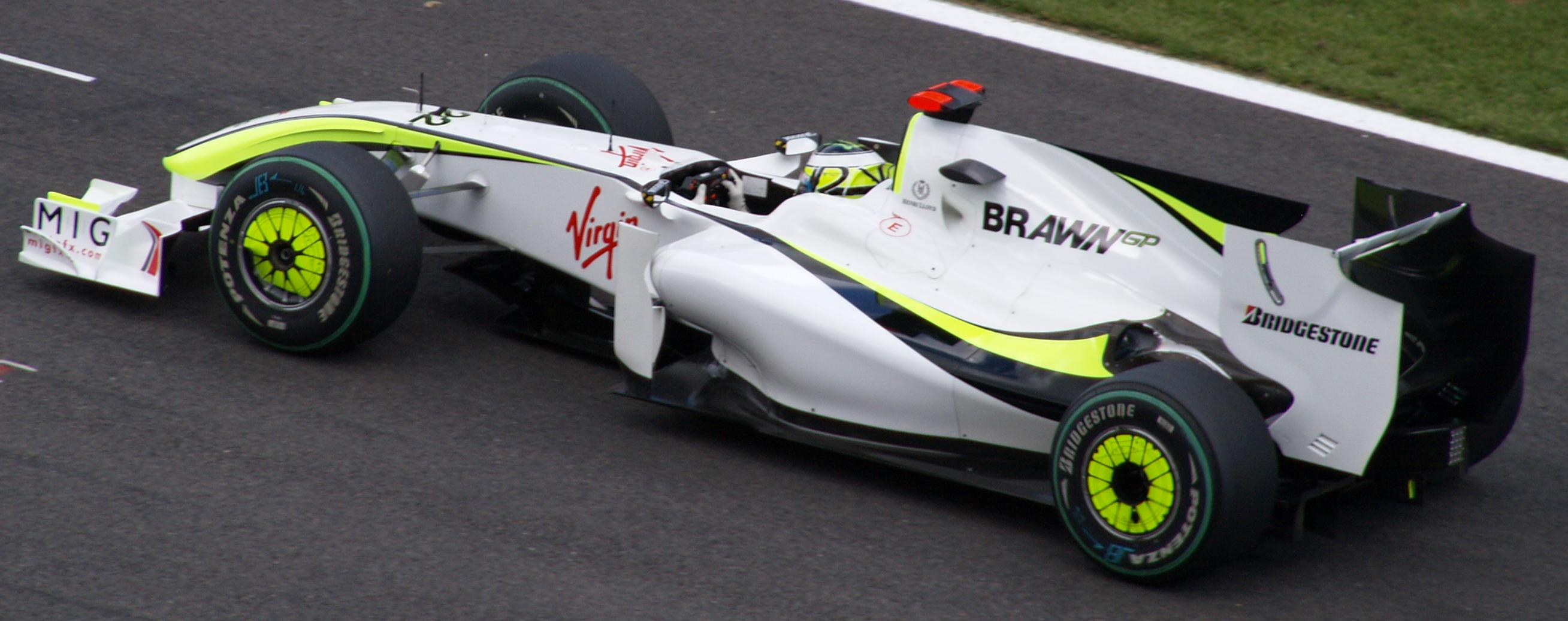 Jenson Button driving for Brawn GP at the 2009 Belgian Grand Prix.